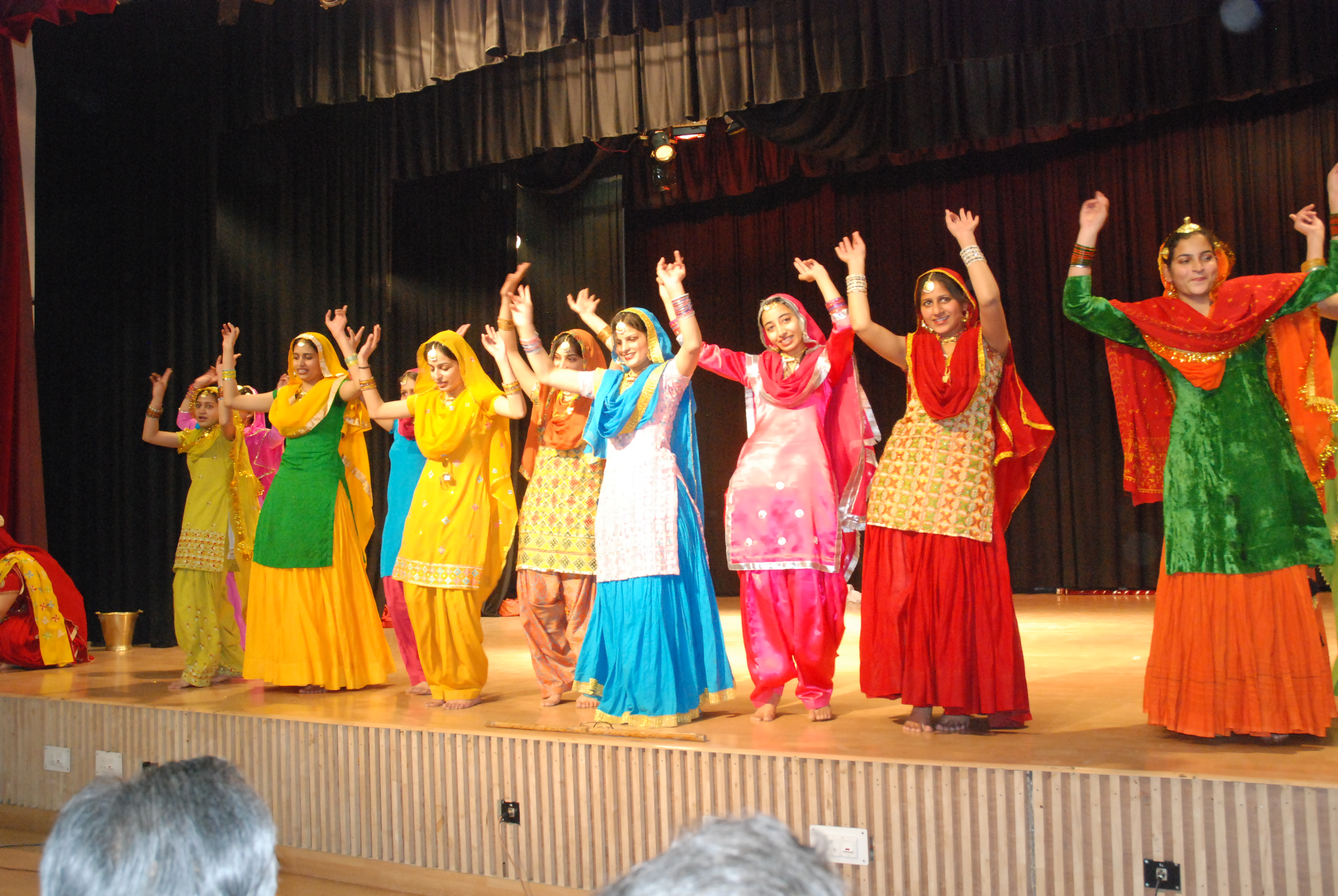 Punjabi folk Dance